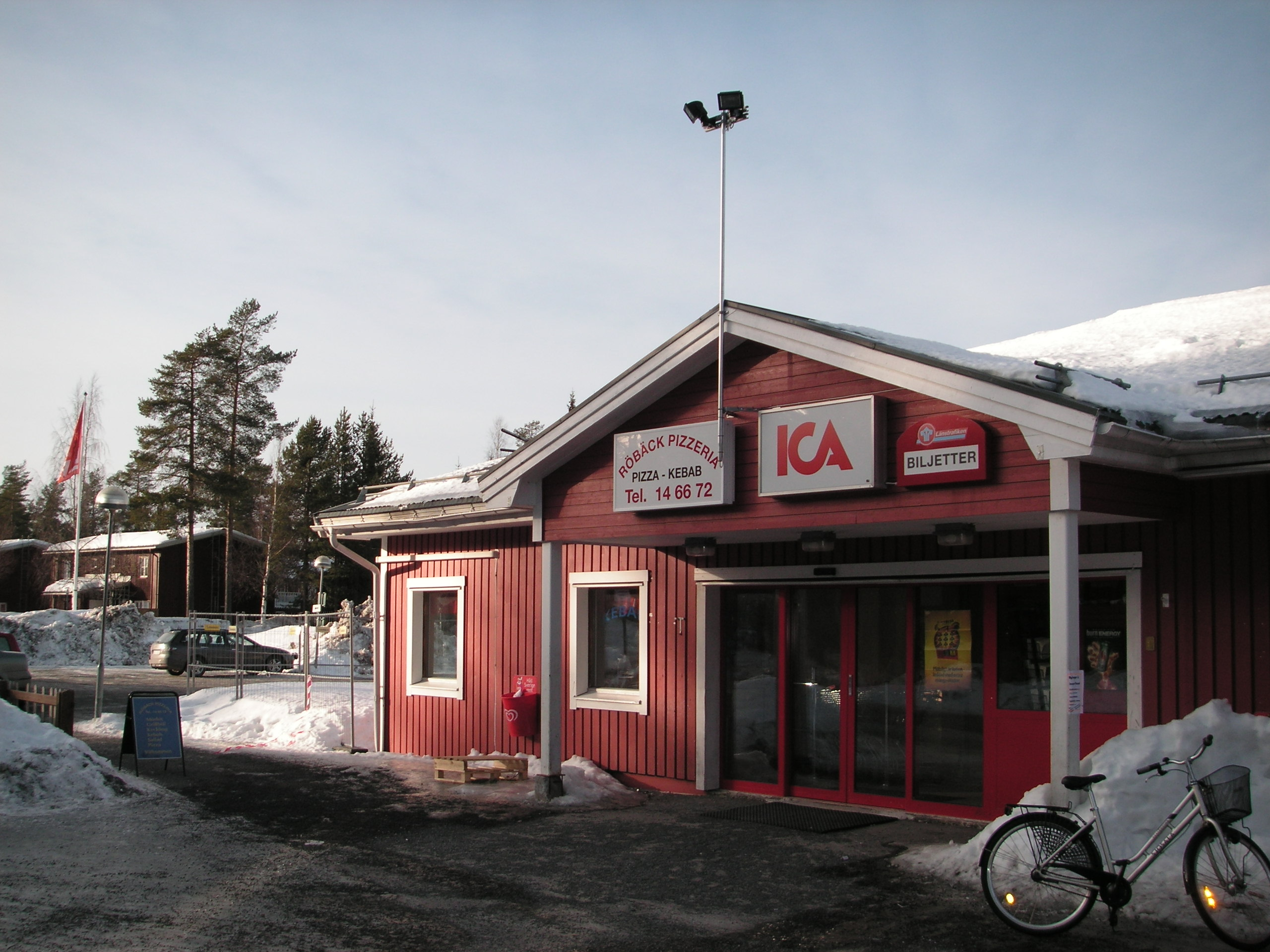 Pizzeria and convenience store in Röbäck village, Umeå, Sweden.